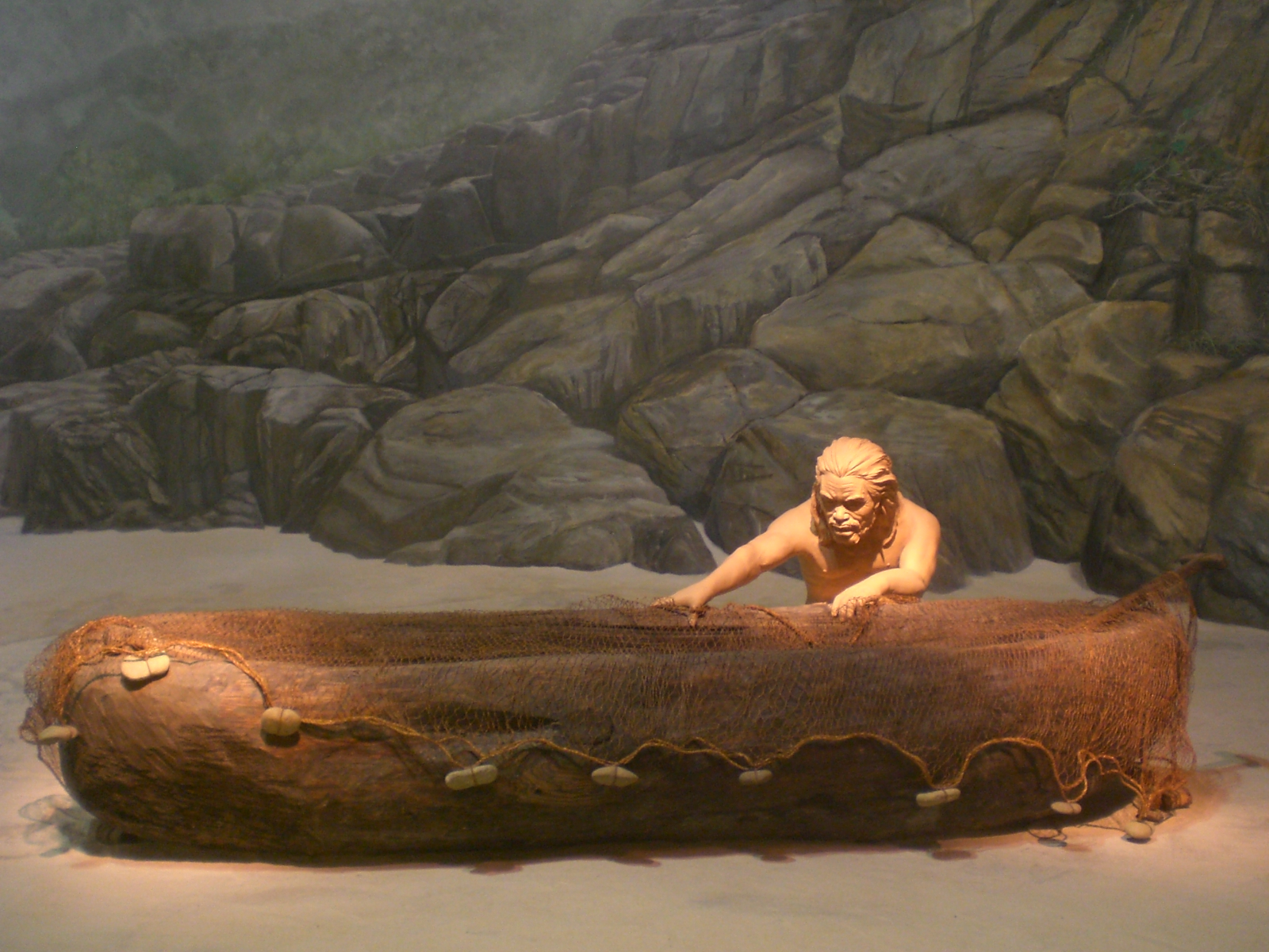 尖沙咀香港歷史博物館史前時期的香港 展品 [1] 史前的zh:香港人 木伐